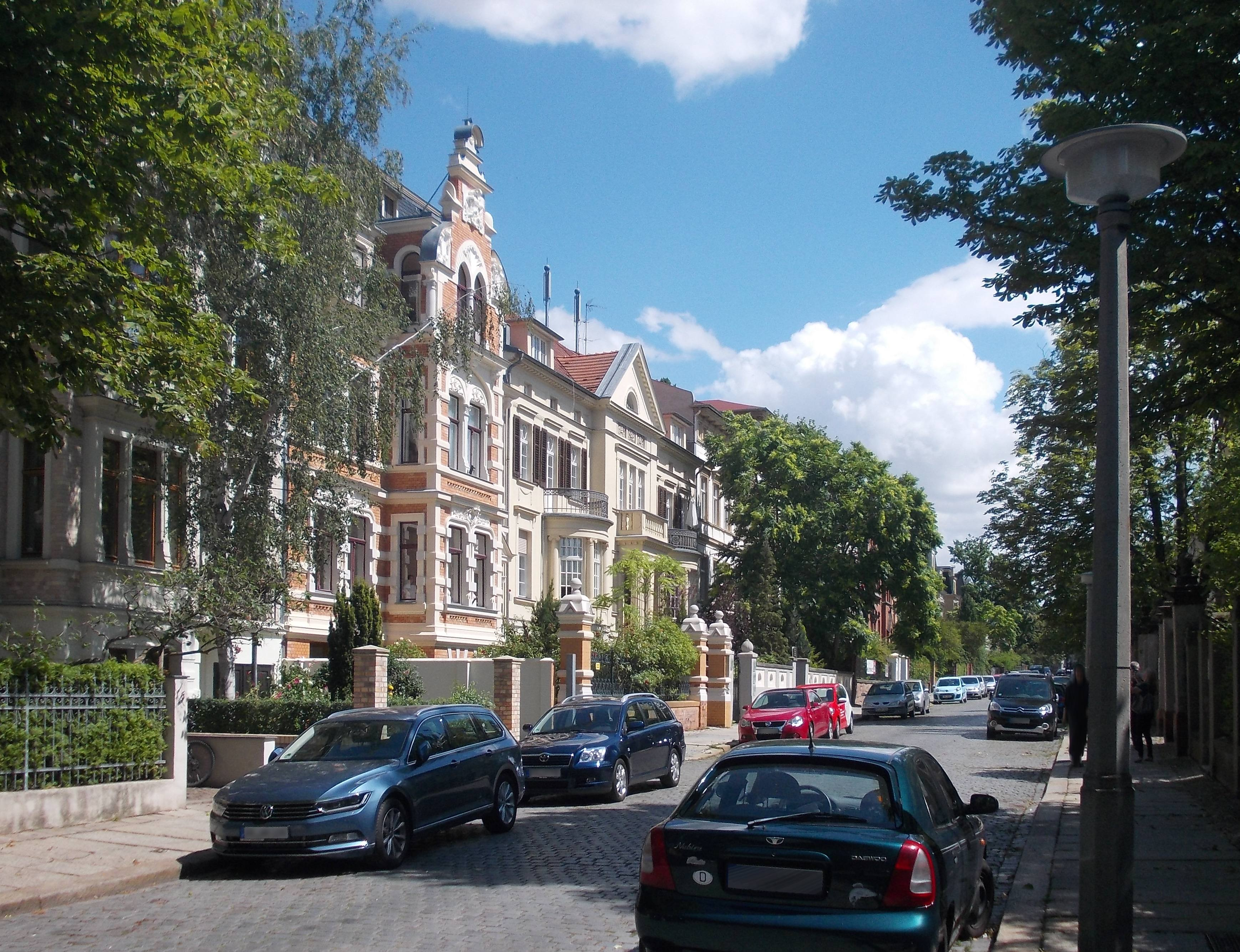 Händelstrasse in Halle/Saale (Saxony-Anhalt)